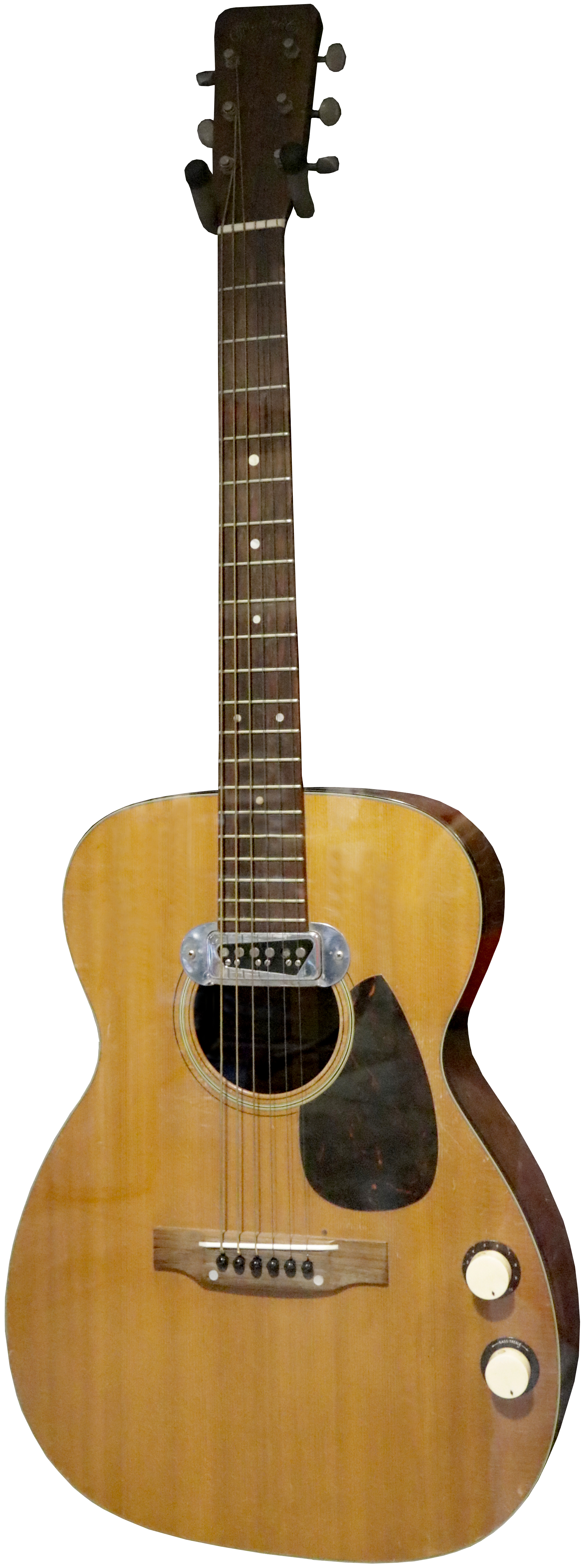 Muddy Waters' 1956 Martin 0018-E guitar (Rock and roll Hall of Fame, Cleveland, OH). Waters played this guitar at the Newport Folk Festival 1968.